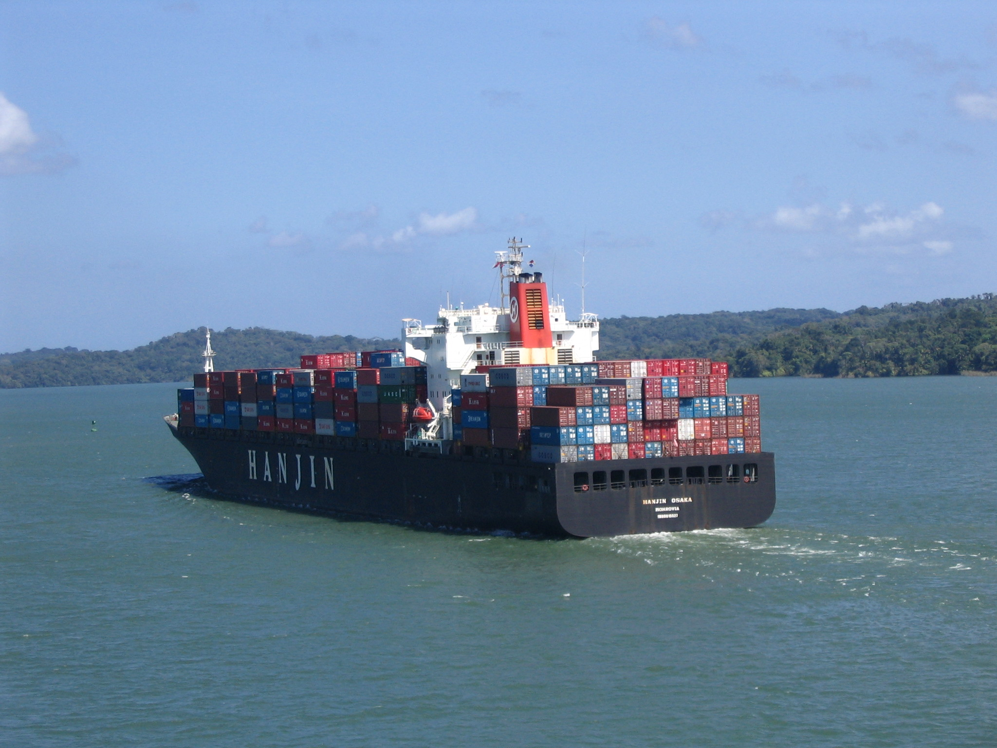 Hanjin Osaka on Gatun Lake during a northbound transit of the Panama Canal. Hanjin Osaka is a container ship registered in Liberia. IMO Number: 9015527 MMSI Number: 636091137 Callsign: A8JT8 Length: 289.0 m Beam: 32.0 m